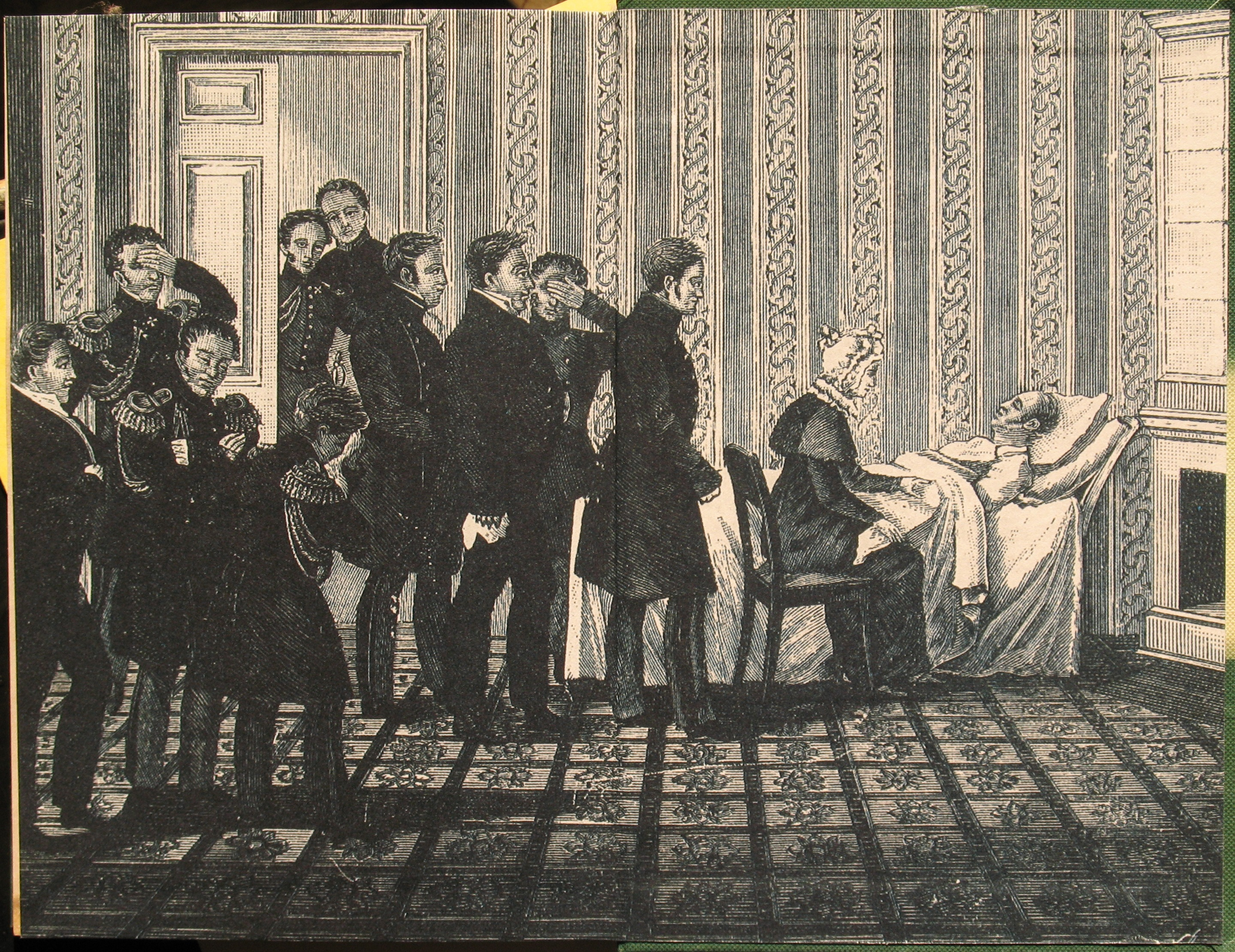 Imperor of Russia, Alexander I of Russia's death.